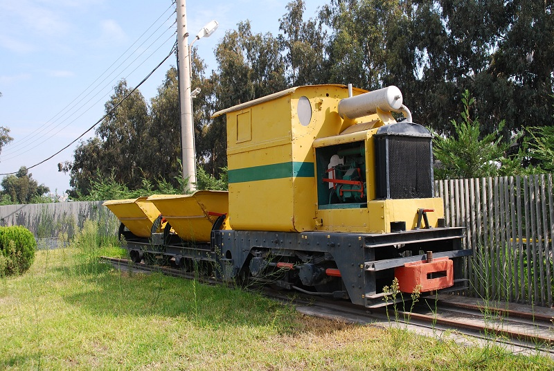 GREECE: An industrial locomotive on display near the entrance of Chalkis Cement Works.